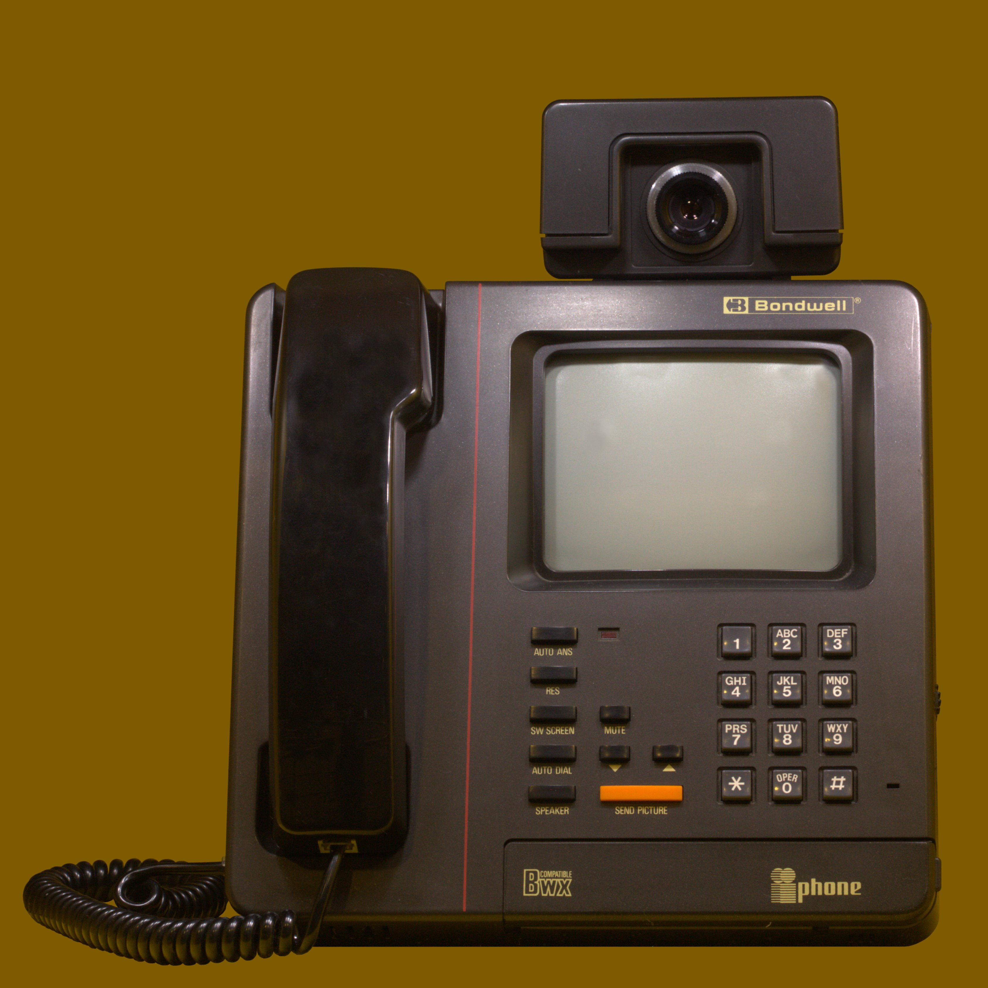 Bondwell iiPhone visiophone. On display at the Musée Bolo, EPFL, Lausanne. The making of this document was supported by Wikimedia CH. (Submit your project!) For all the files concerned, please see the category Supported by Wikimedia CH.